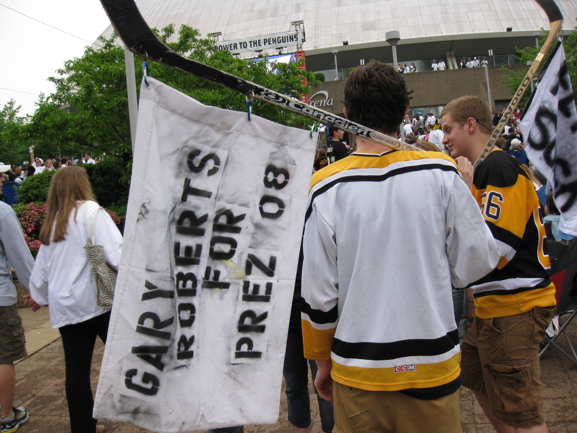 Roberts for Prez 08